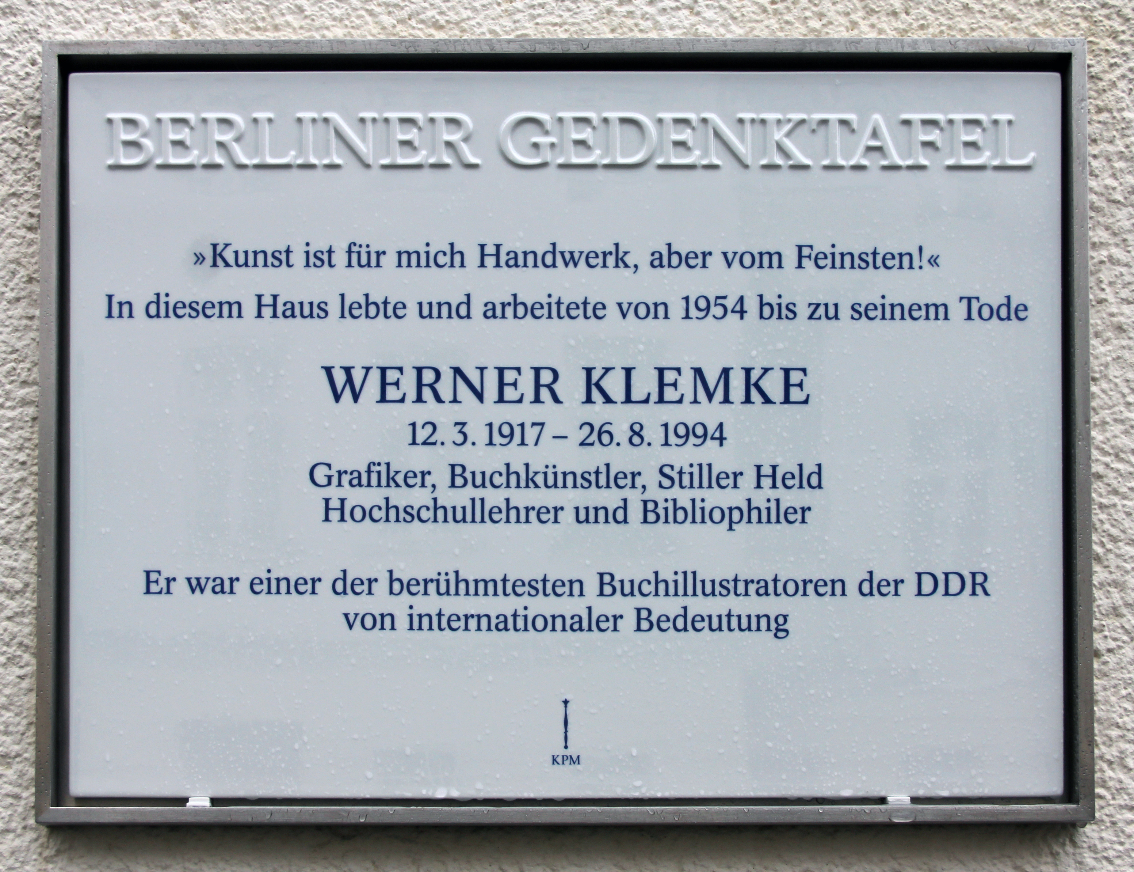 Berlin memorial plaque, Werner Klemke, Tassostraße 21, Berlin-Weißensee, Germany